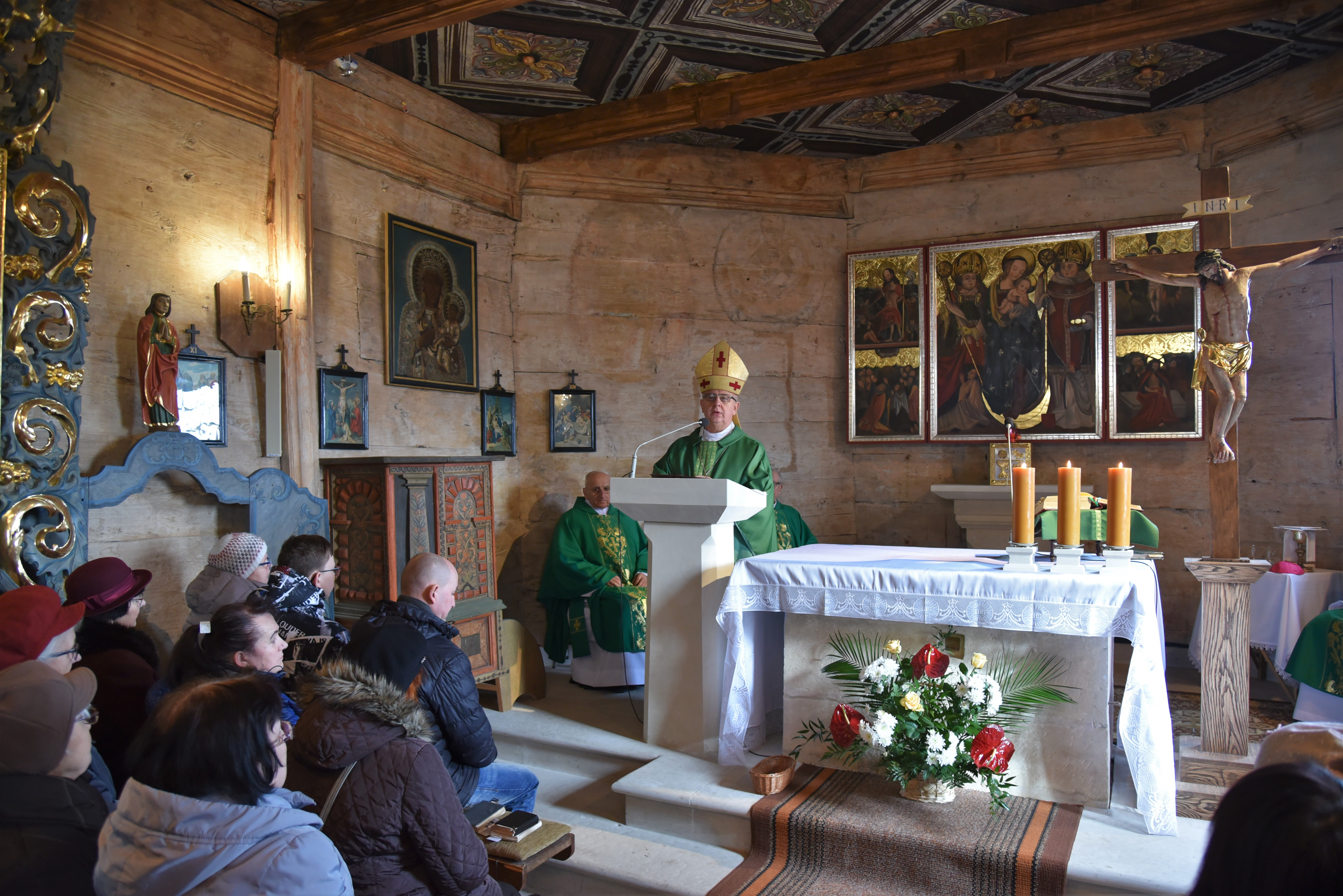 Kościółek św. Stanisława w Chotelku - msza święta celebrowana przez biskupa ordynariusza diecezji kieleckiej Jana Piotrowskiego, 16 lutego 2020 r.